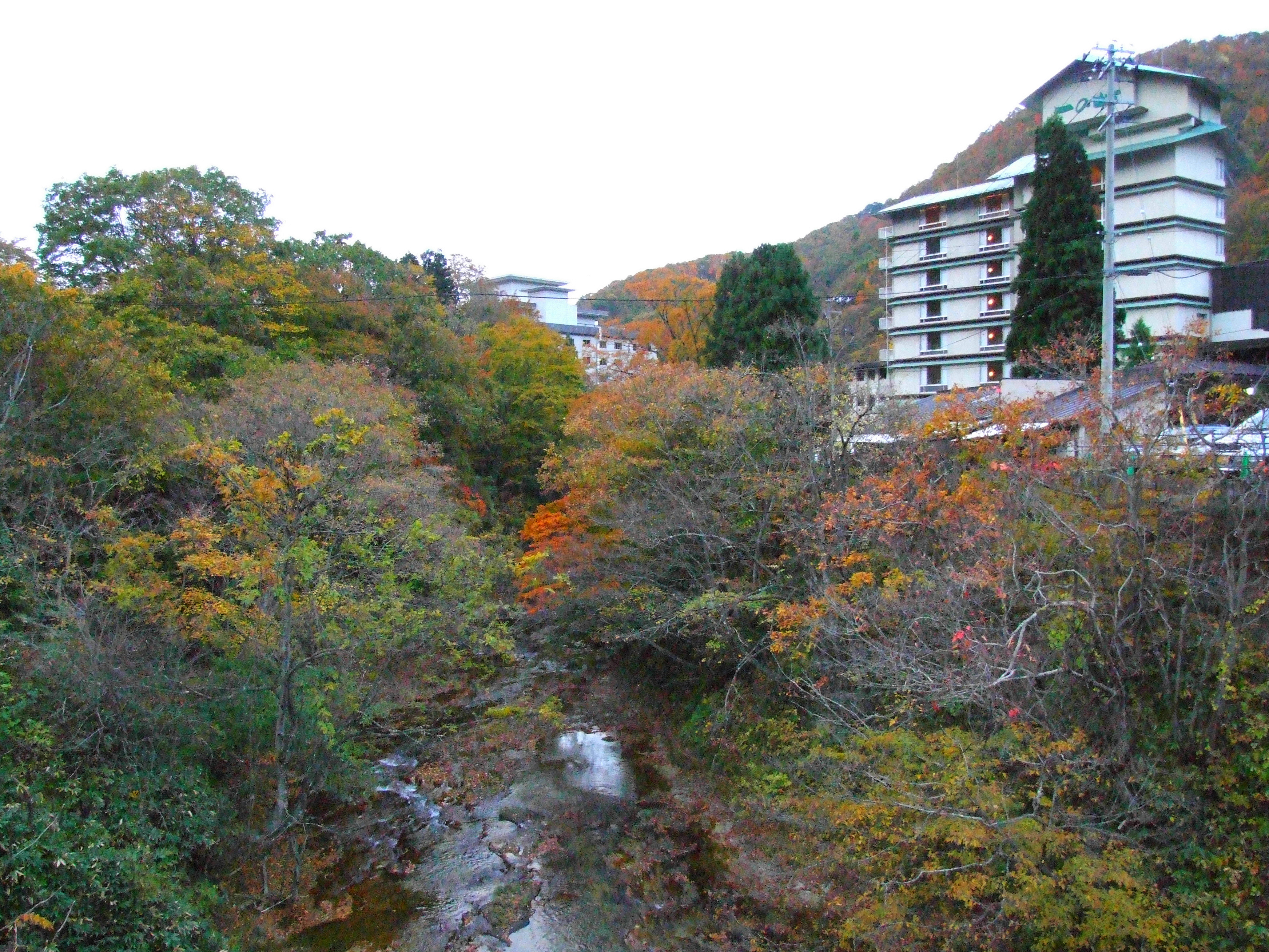 Sakunami Spa - Sakunami, Aoba ward, Sandai, Miyagi prefecture, Japan. From the Sakunami Bridge of Hirose River. Right building is Hotel Ichinobo. Front is Iwamatsu Hotel.